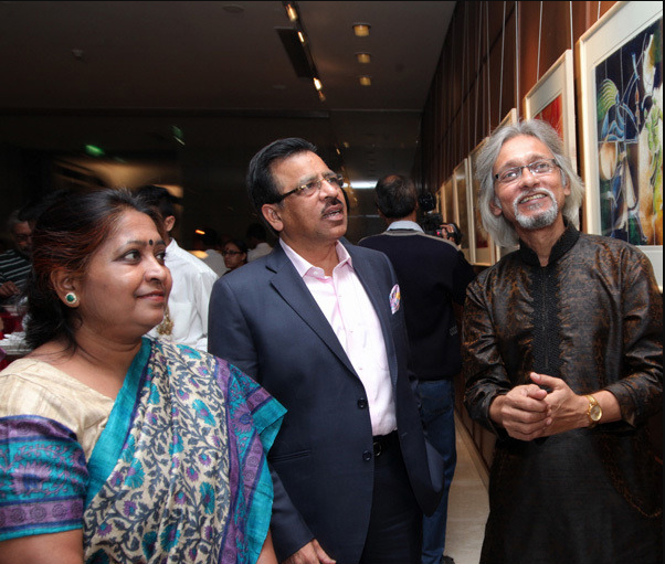 Ghanshyam Sarda